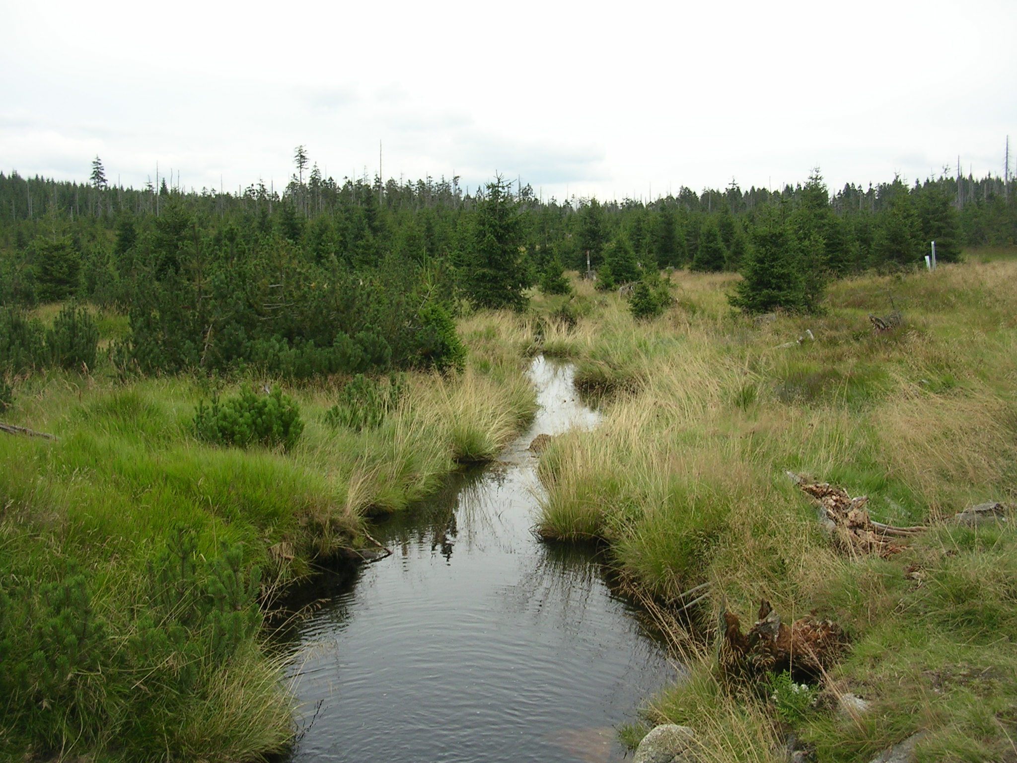 Kořenov-Jizerka and Bílý Potok, Jablonec nad Nisou District and Jablonec nad Nisou District, Liberec Region. Nature reserve of Černá jezírka, Krásný Creek.